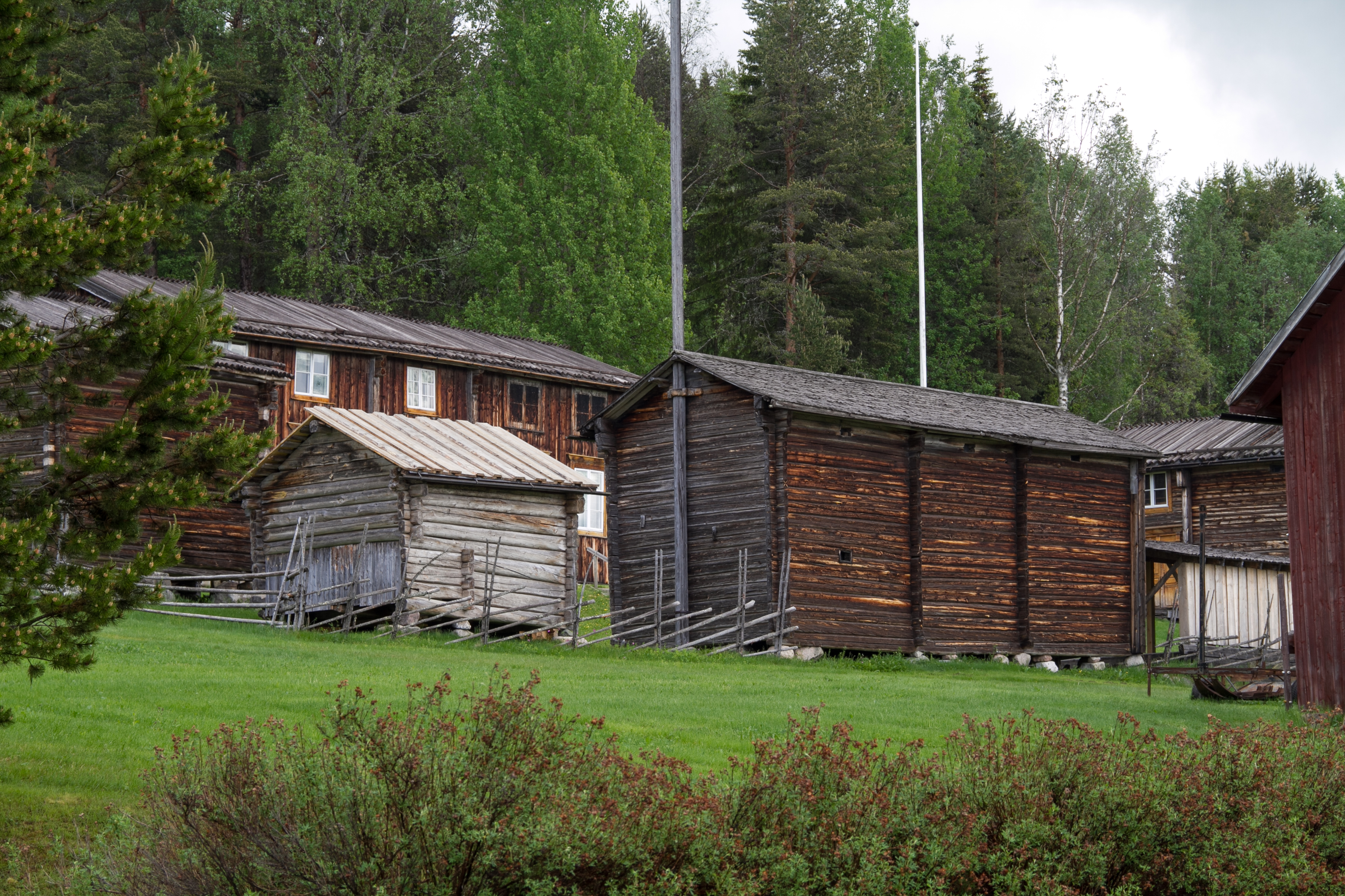 Glommerträsk in Arvidsjaur municipality, Norrbotten county, Sweden